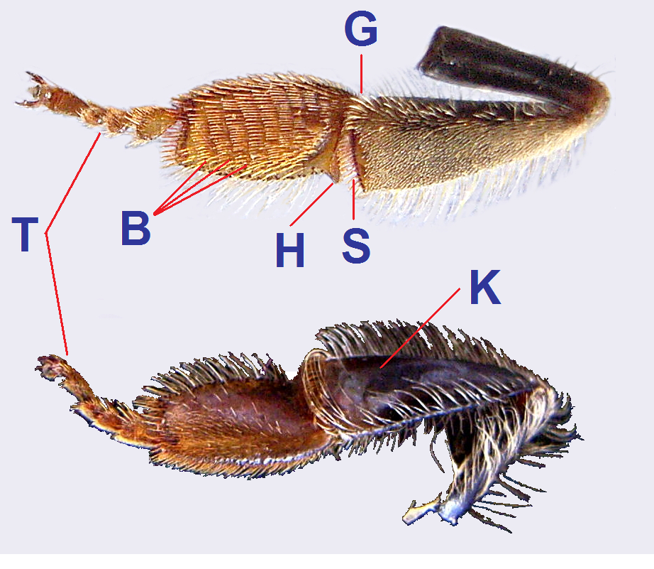 Hind leg of Honey bee from outside hind leg of Honey bee from inside